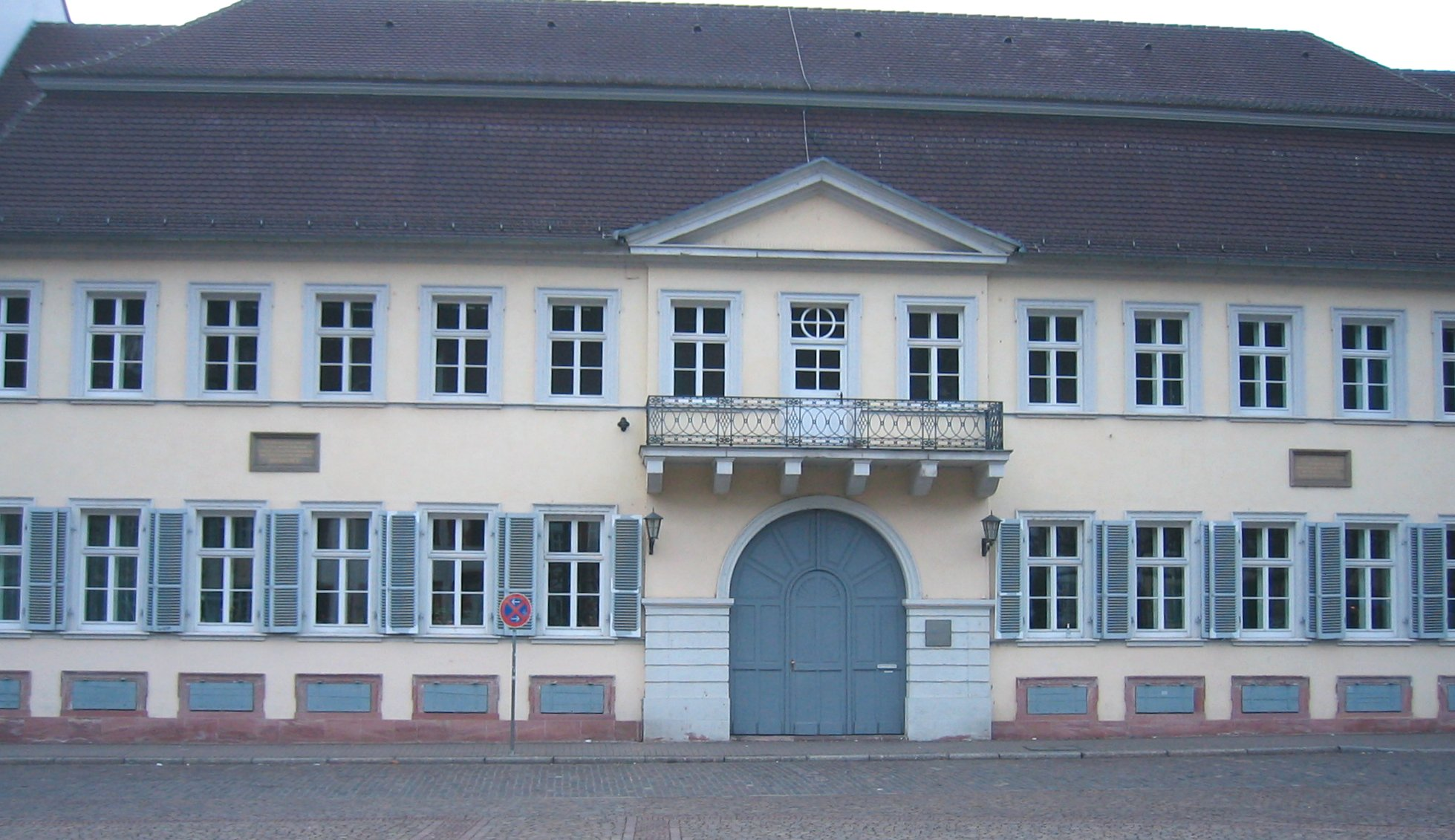 Photography by Arne Kunstmann, Heidelberg Canon IXUS V3